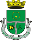 Coat of arm of the município de Rosario do Sul, Rio Grande do Sul, Brasil.